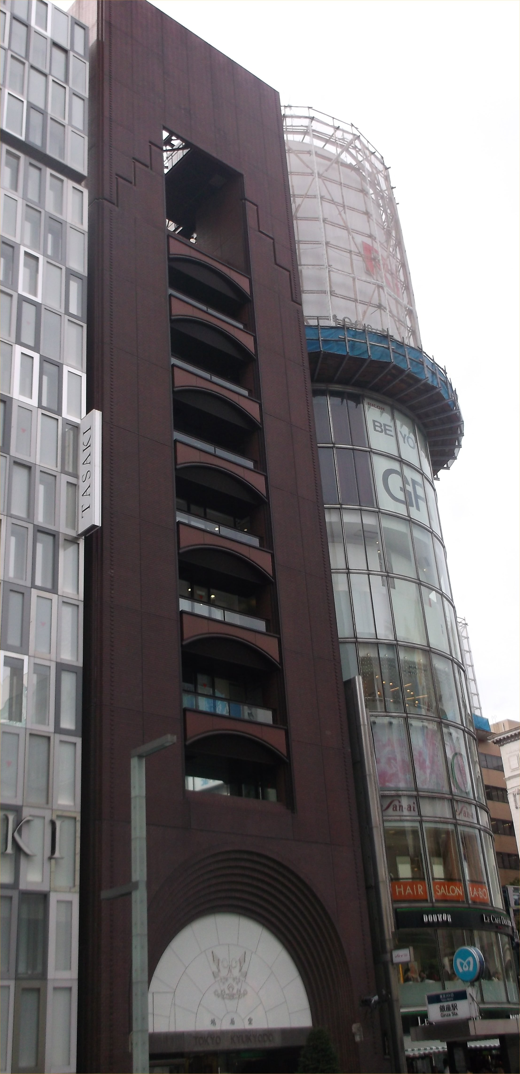 A photo of "Kyukyodo "head store,Ginza,Chuo-ku,Tokyo,Japan.